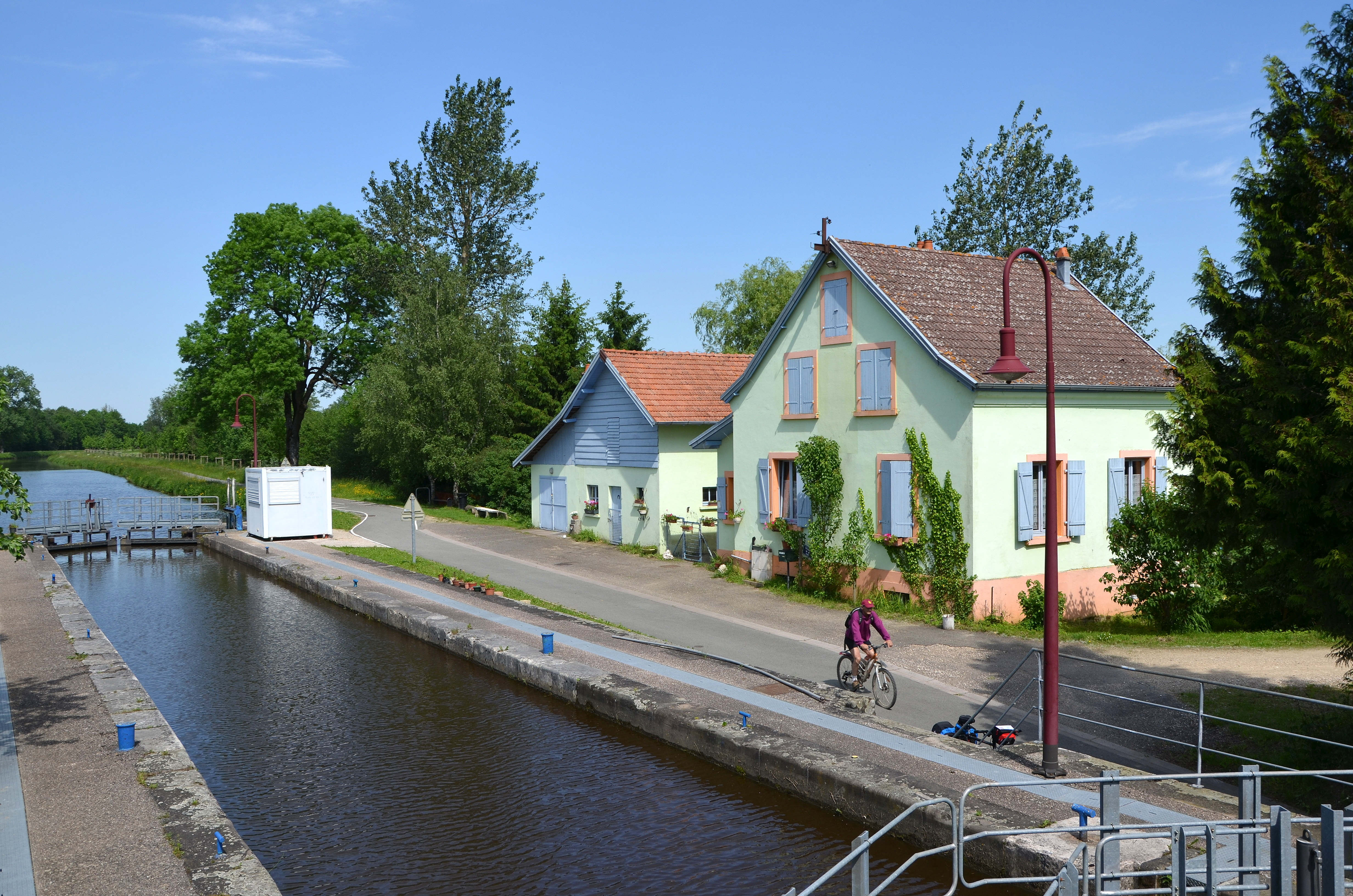 Lock on the Canal du Rhone au Rhin near Bretagne, Territoire de Belfort, Franche-Comté, France. Part of the EuroVelo 6